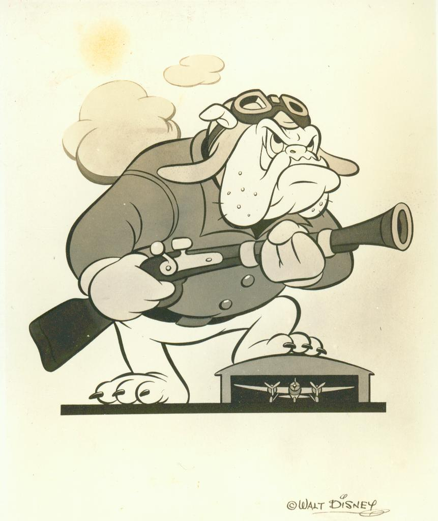 Walt Disney designed insignia of the United States Marine Corps' 17th AAA Battalion from World War II.